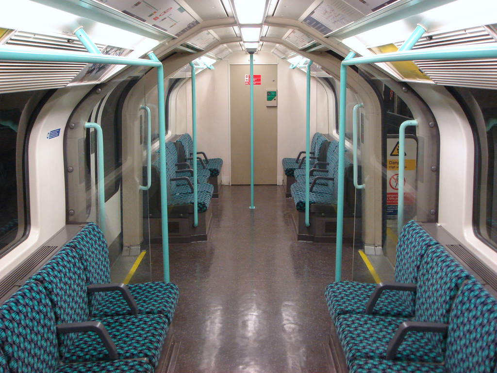 Interior of a 1992 stock train on the Waterloo & City line, by tompagenet from